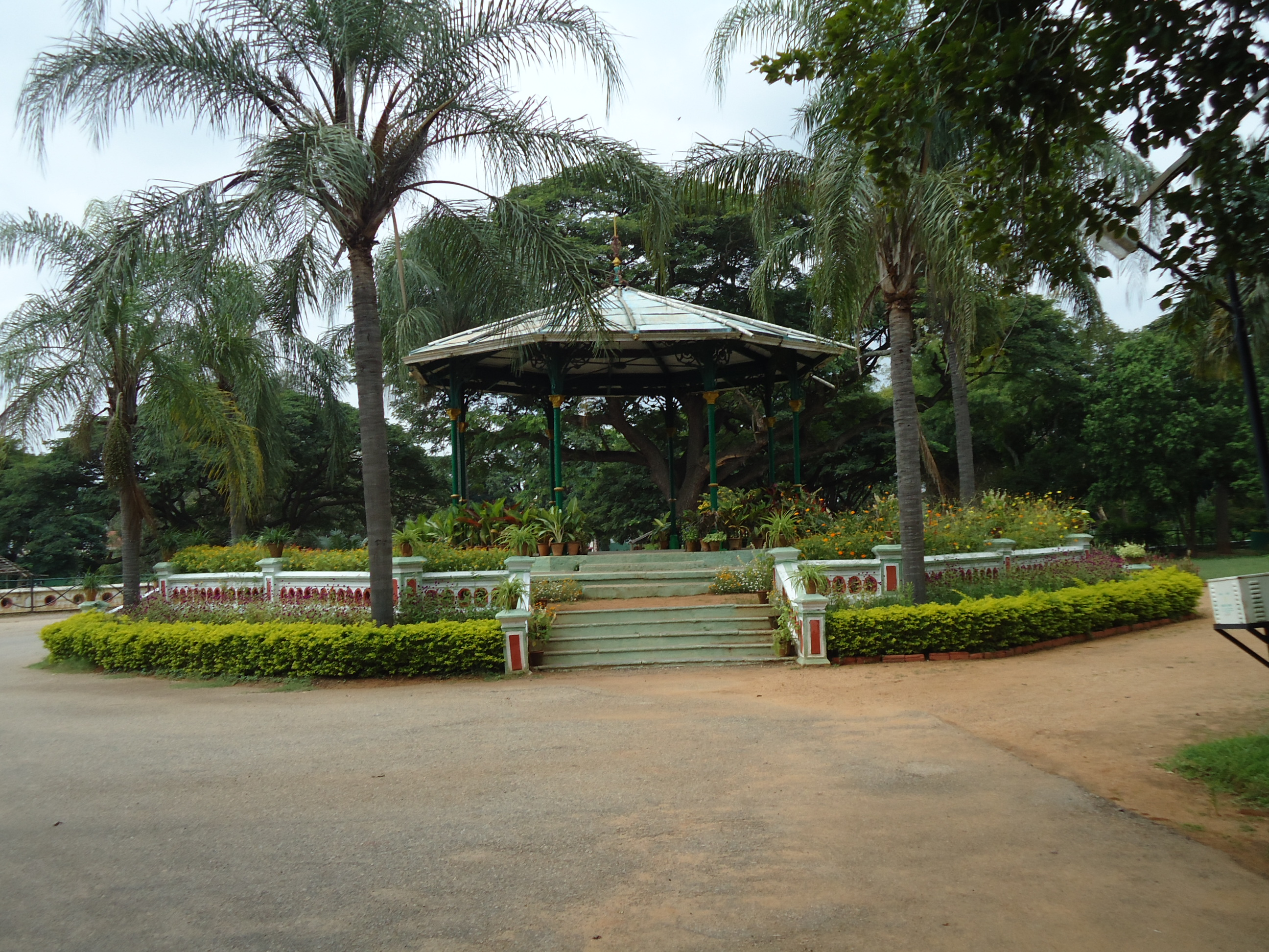 Garden in Mysore Zoo